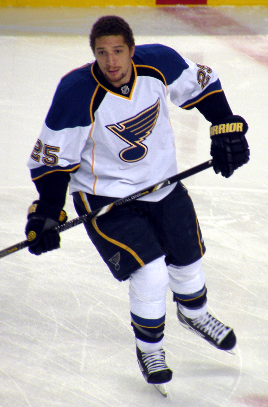 St. Louis Blues forward Chris Stewart prior to a National Hockey League game in Calgary